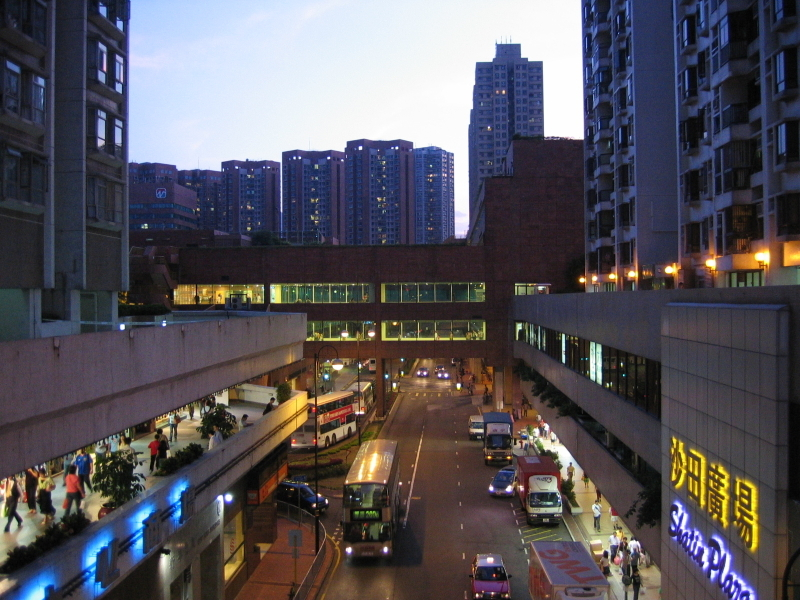 Author:WiNG@NTPHK Details:晚上的沙田市中心